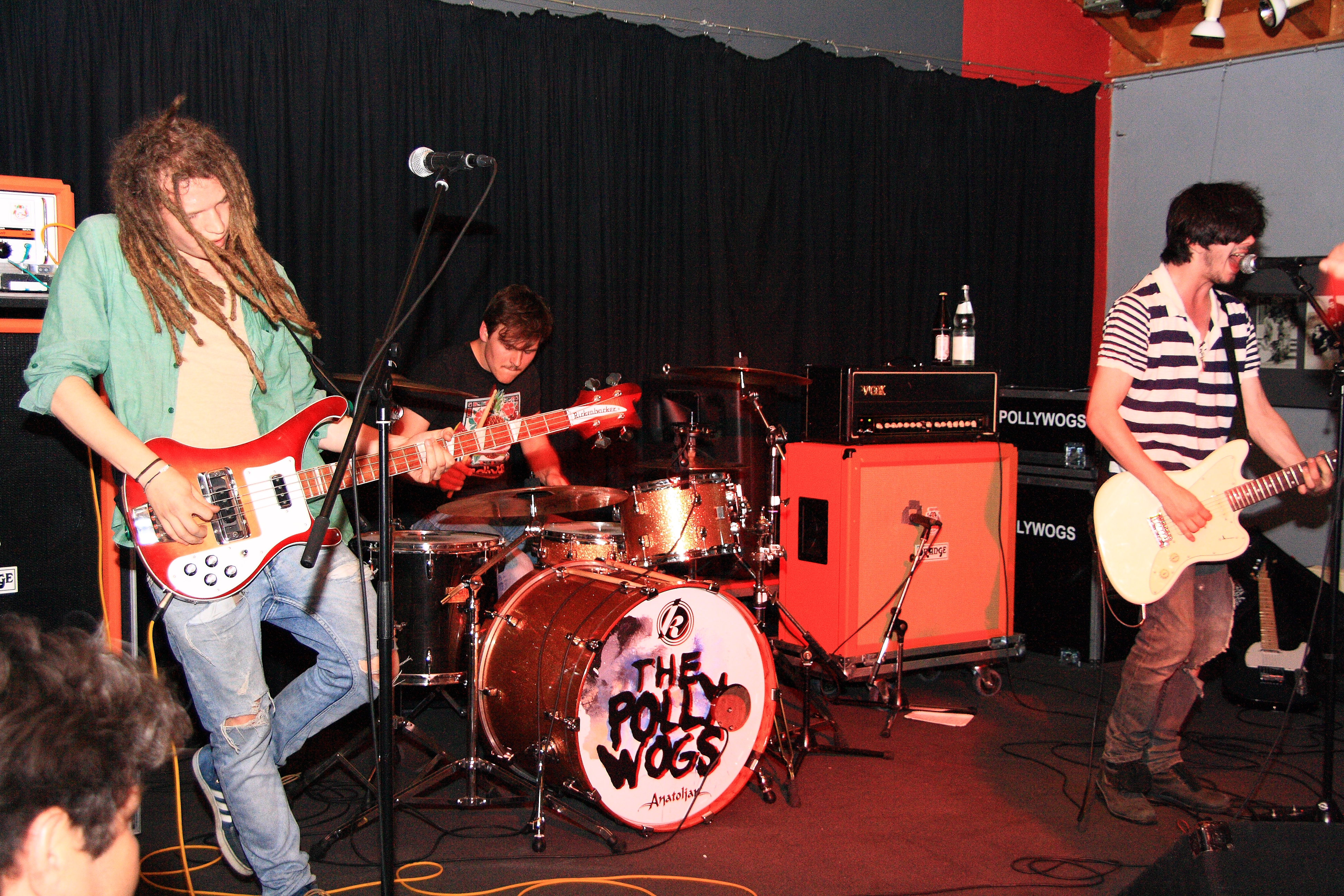 The Pollywogs at Club W71, Weikersheim.